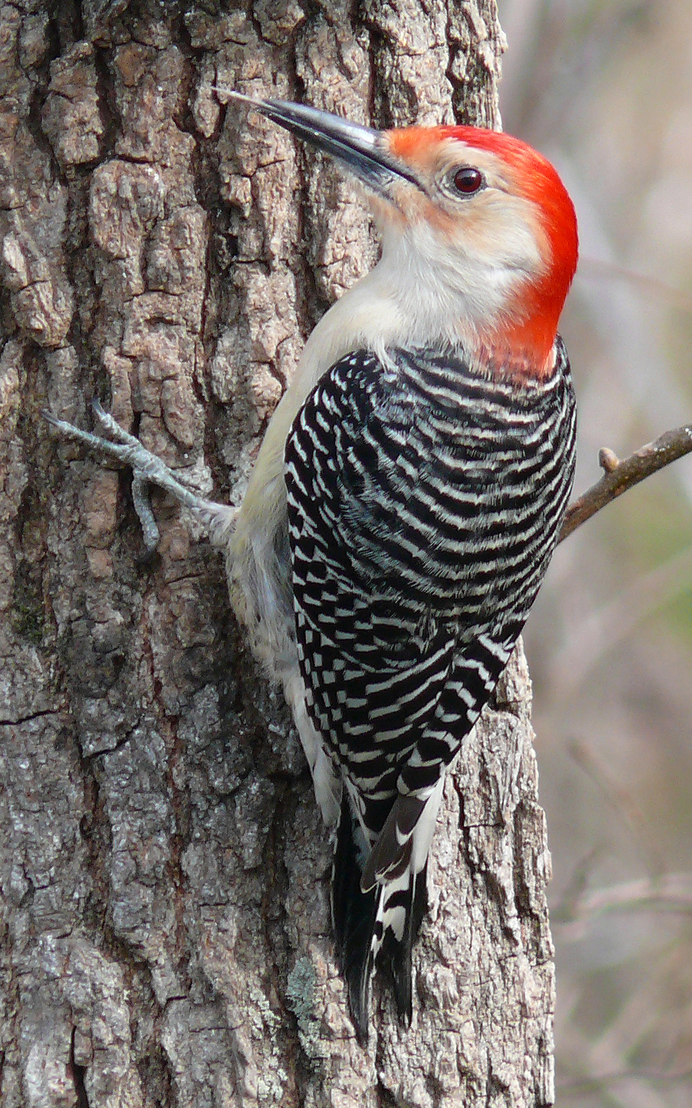 A male Red-bellied Woodpecker (Melanerpes carolinus). Photo taken with a Panasonic Lumix DMC-FZ50 in Johnston County, North Carolina, USA.